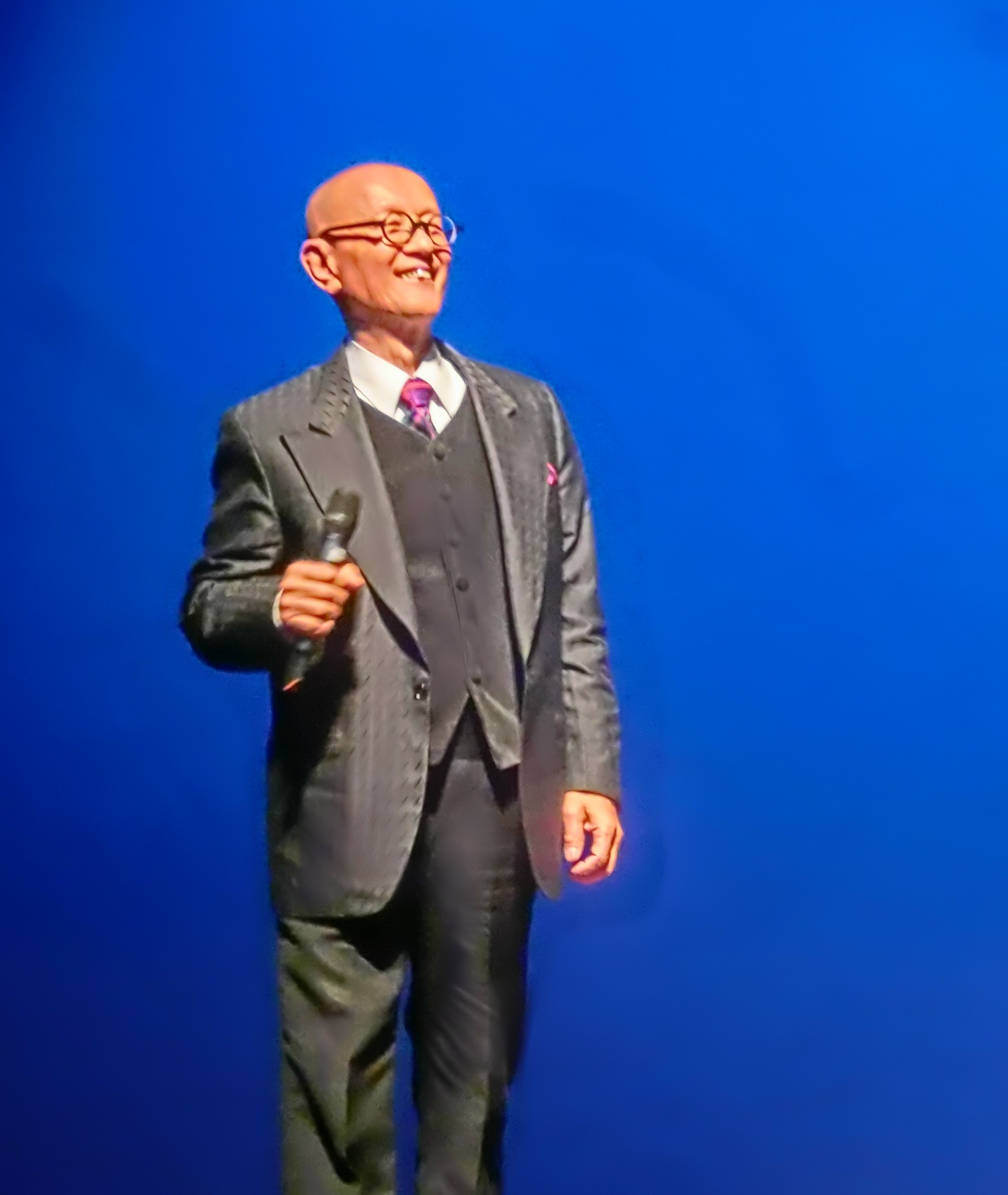 Singer 陳裘大, Theatre stage, Sheung Wan Civic Centre, Sheung Wan, Hong Kong